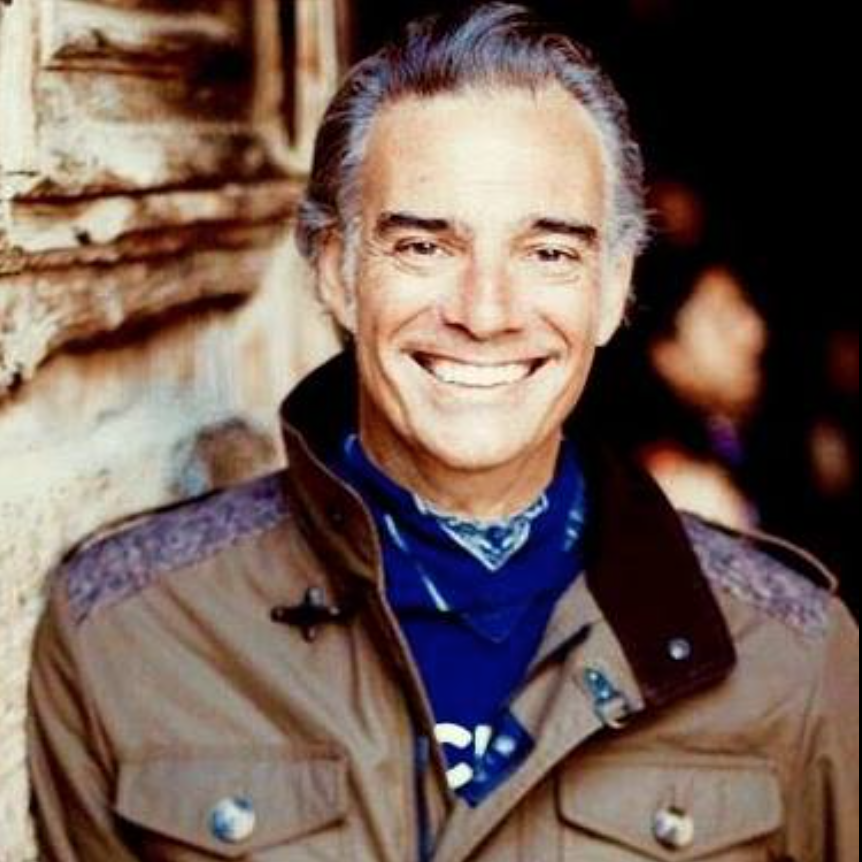 Roberto Parodi